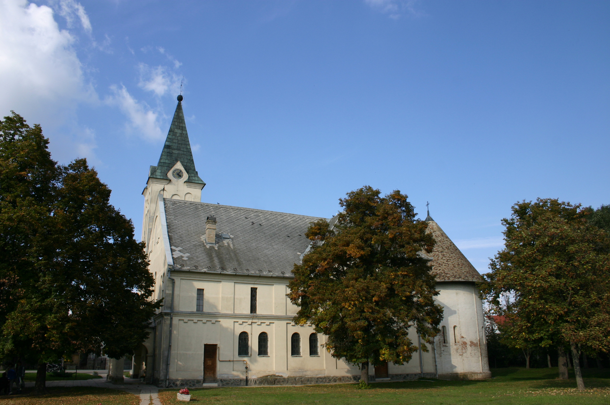 Nagyboldogasszony római katolikust templom, Kiszombor (Hungary)